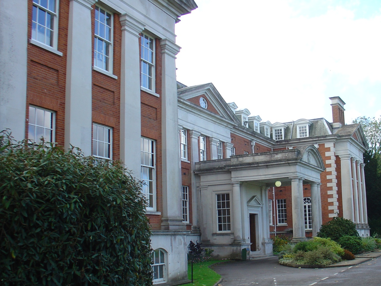 A photo of Hursley House in Hursley, Hampshire